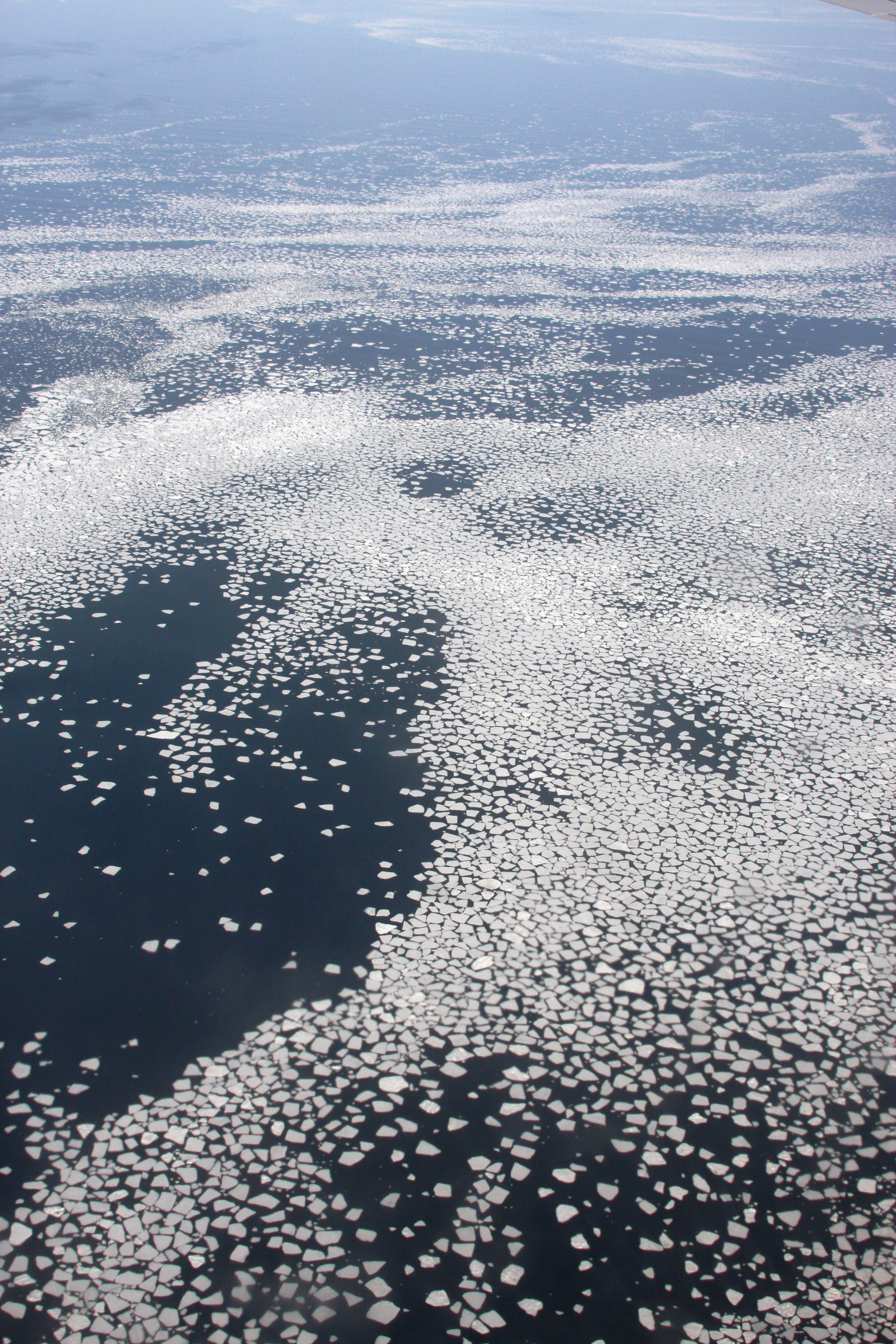 Isfjorden, Spitsbergen. Sea ice showing local currents. Late april, 2011.